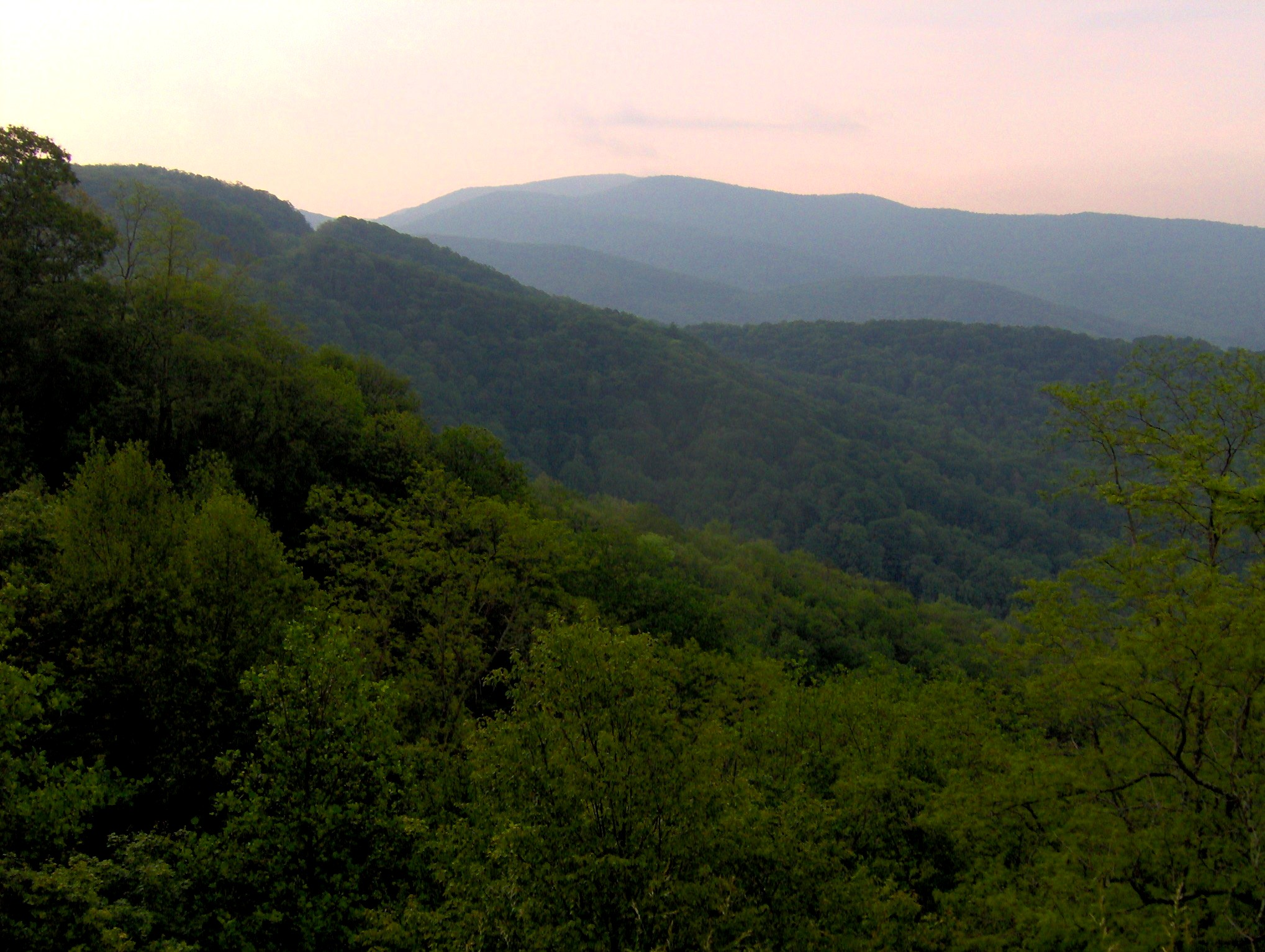 The crest of the Unicoi Mountains, looking east from an overlook along Cherohala Skyway on the Tennessee side. The Unicoi Mountains, located in the southeastern United States, are part of the Appalachian Mountains.